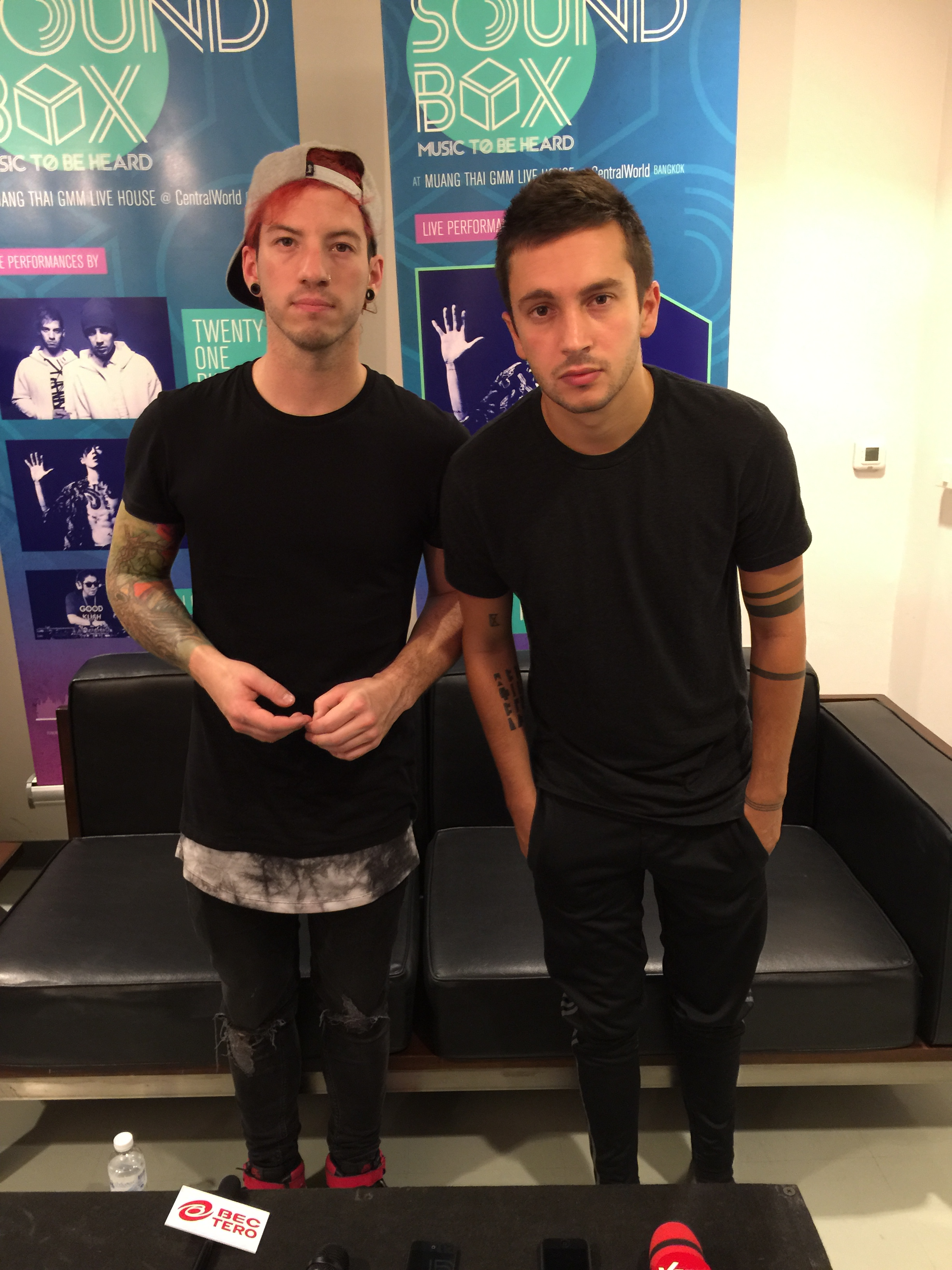 Twenty One Pilots at Press conference of Soundbox in Bangkok.